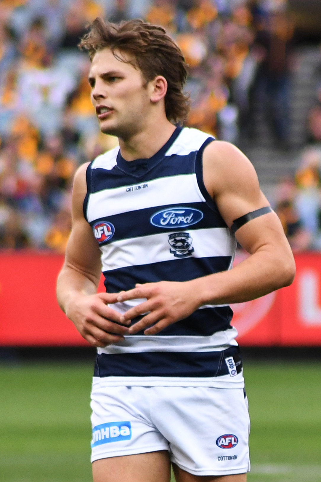 Tom Atkins of Geelong during the 2019 AFL round 5 match between Hawthorn and Geelong at the Melbourne Cricket Ground on Monday, 22 April 2019 in Melbourne, Victoria.